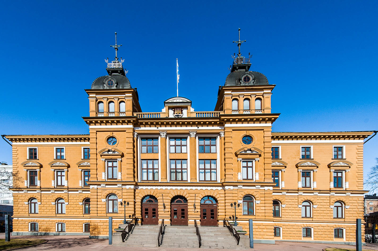 Oulu City hall